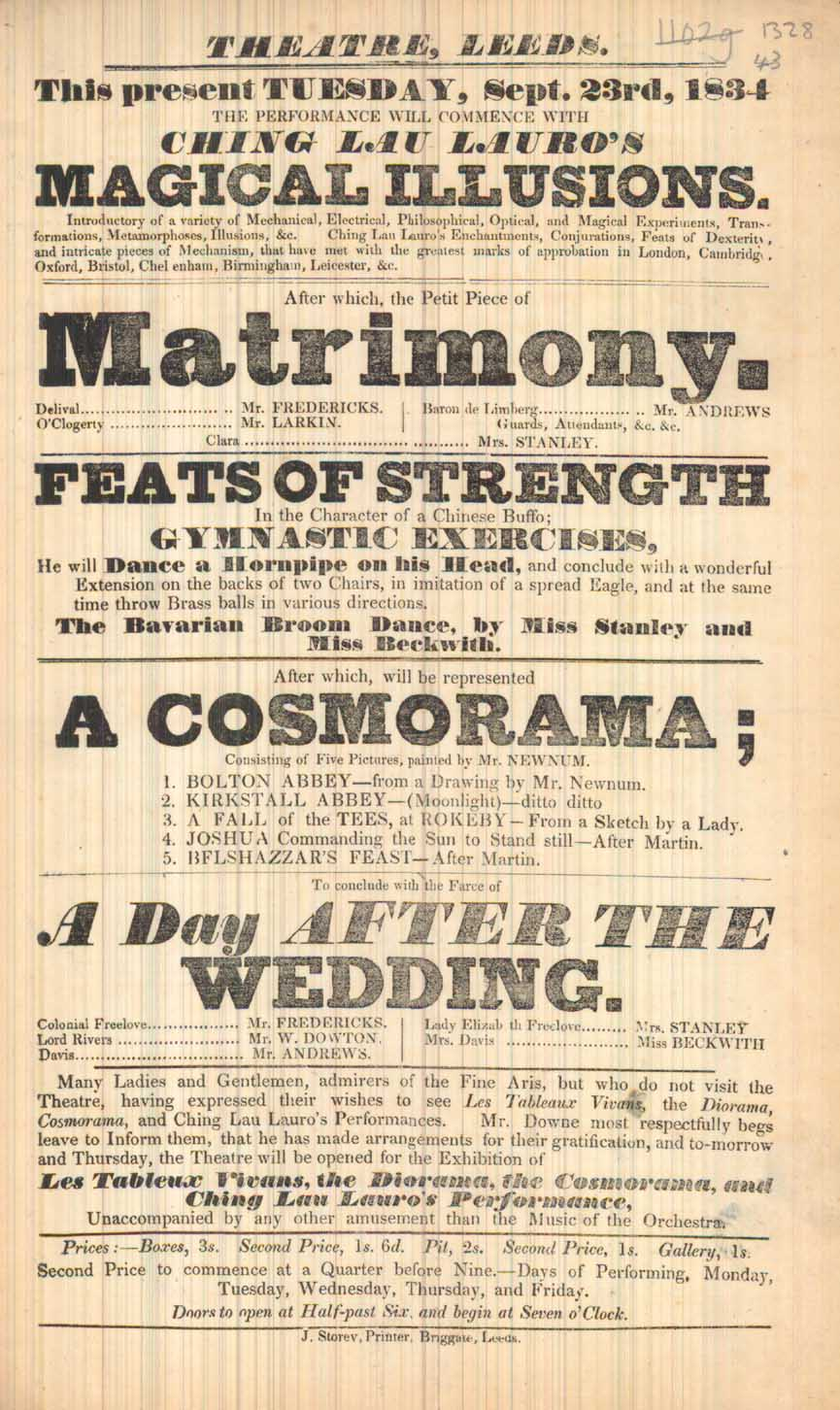 Theatre, Leeds, West Yorkshire poster of Tuesday 23 September 1834, advertising the magician Ching Lau Lauro